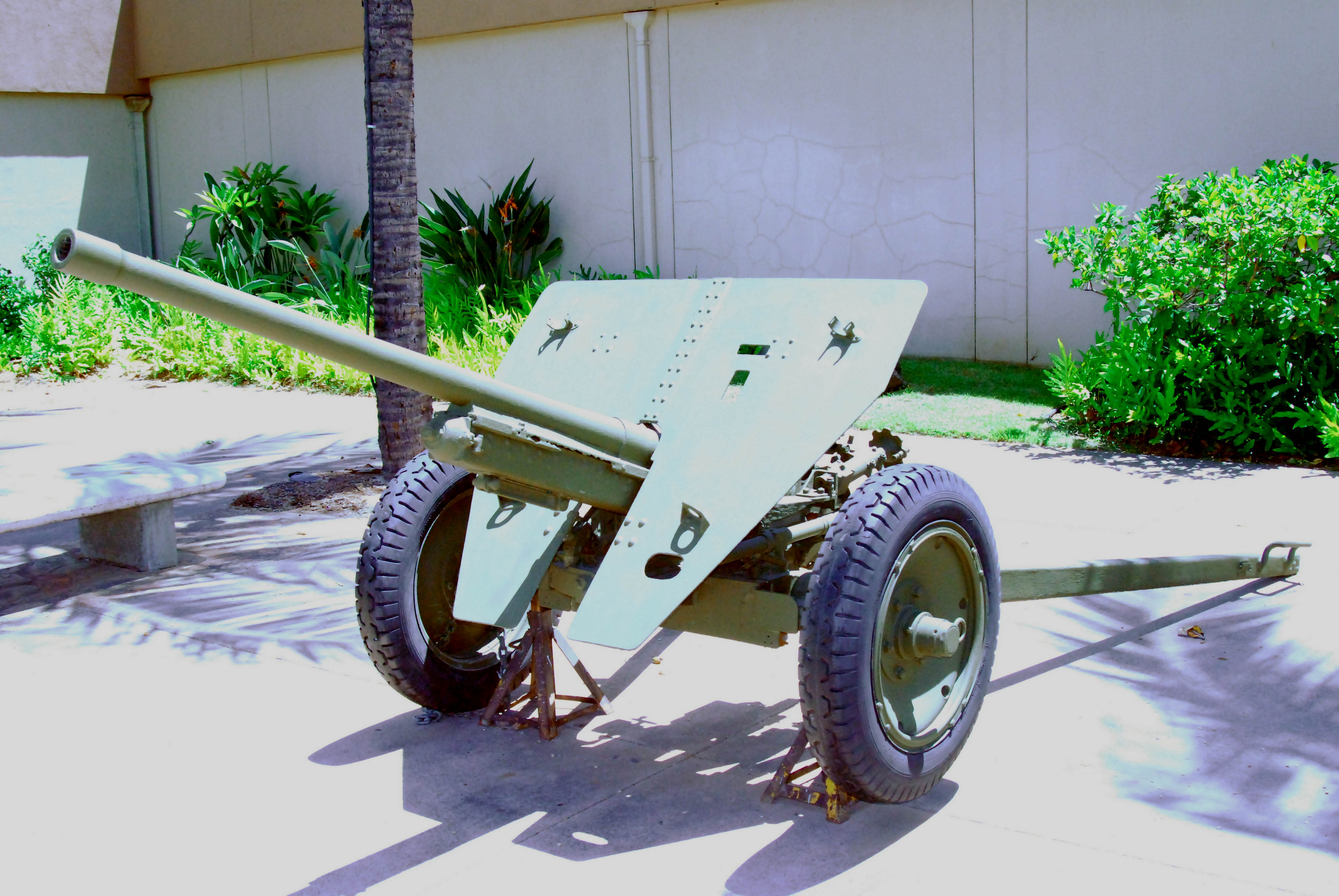 Japanese Type 1 antitank gun (1941). A light weight (1600 pound) mobile piece used by independent antitank and armored units. It's 3 lb. shell could penetrate 3 inches of armor at 500 yards. Now on display at Battery Randolf US Army Museum, Honolulu. Other views: Image:Antitank gun Japanese Type 1 rear 3-4 view right.jpg Image:Antitank gun Japanese Type 1 rear 3-4 view left.jpg